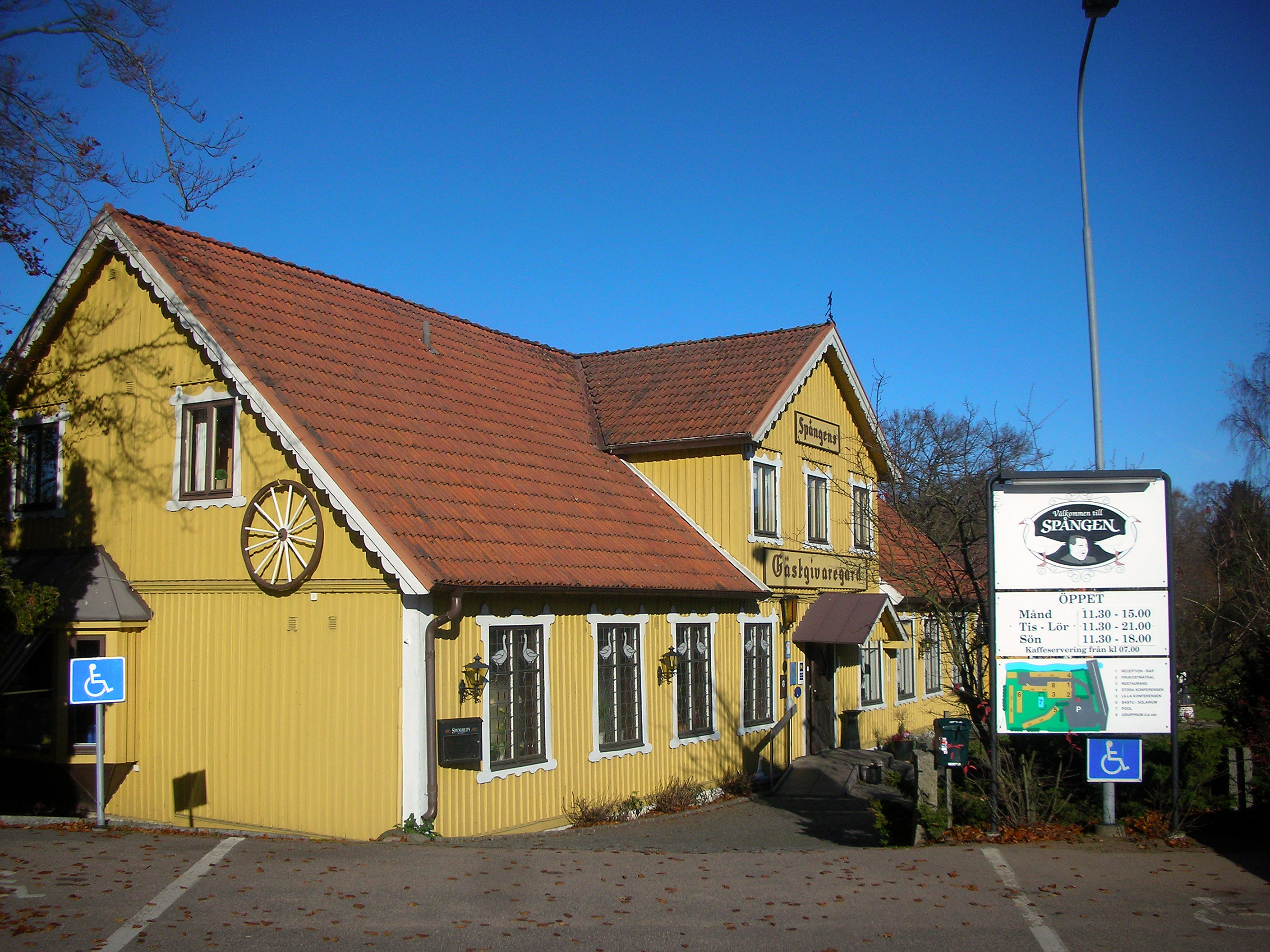 Spångens Gästgivaregård, an inn in central Scania, Sweden. The establishment was the scene for the 1939 movie Kalle på Spången with famous Swedish actor Edvard Persson in the lead roll.